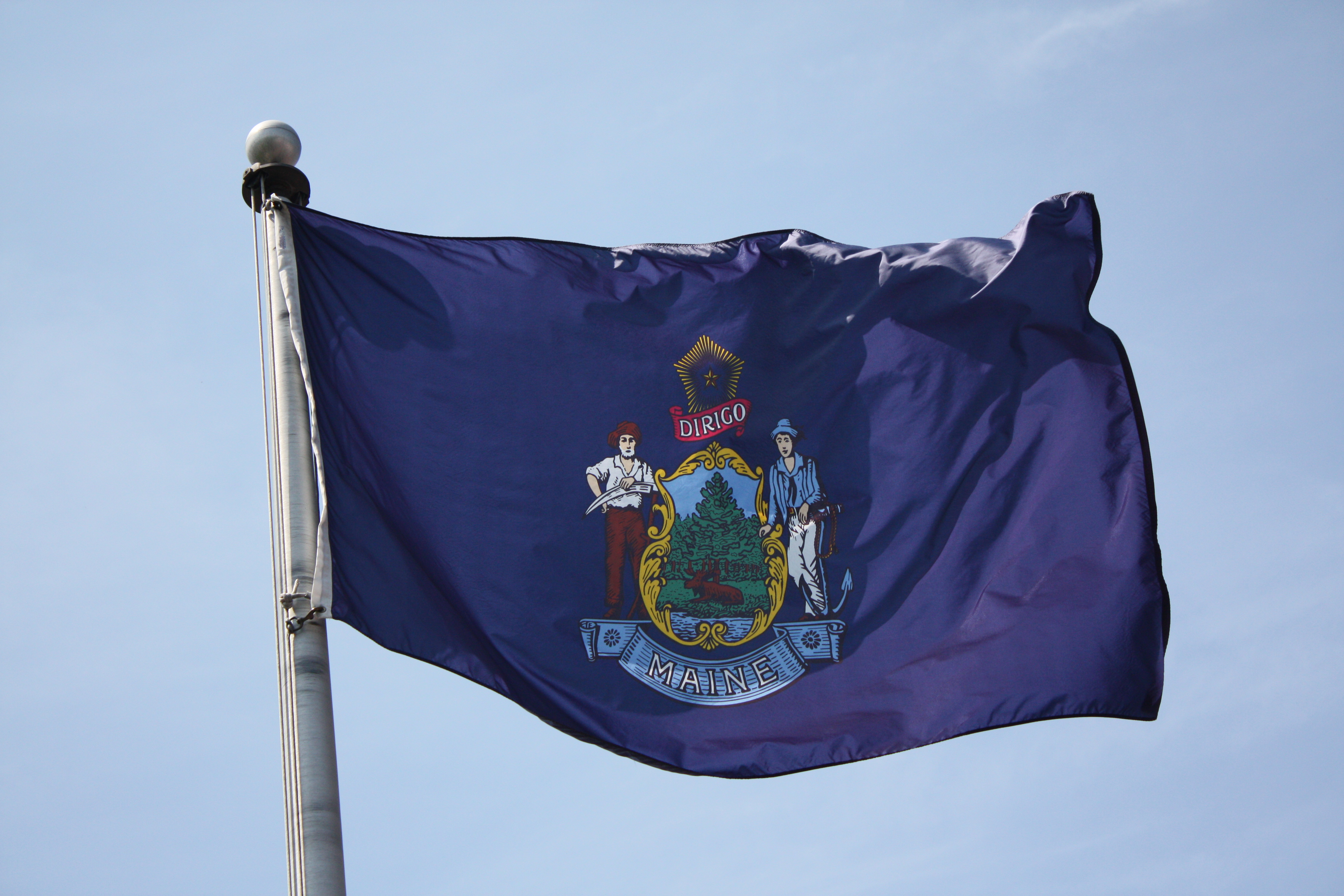 The flag of Maine, U.S.A. near the town of Freeport